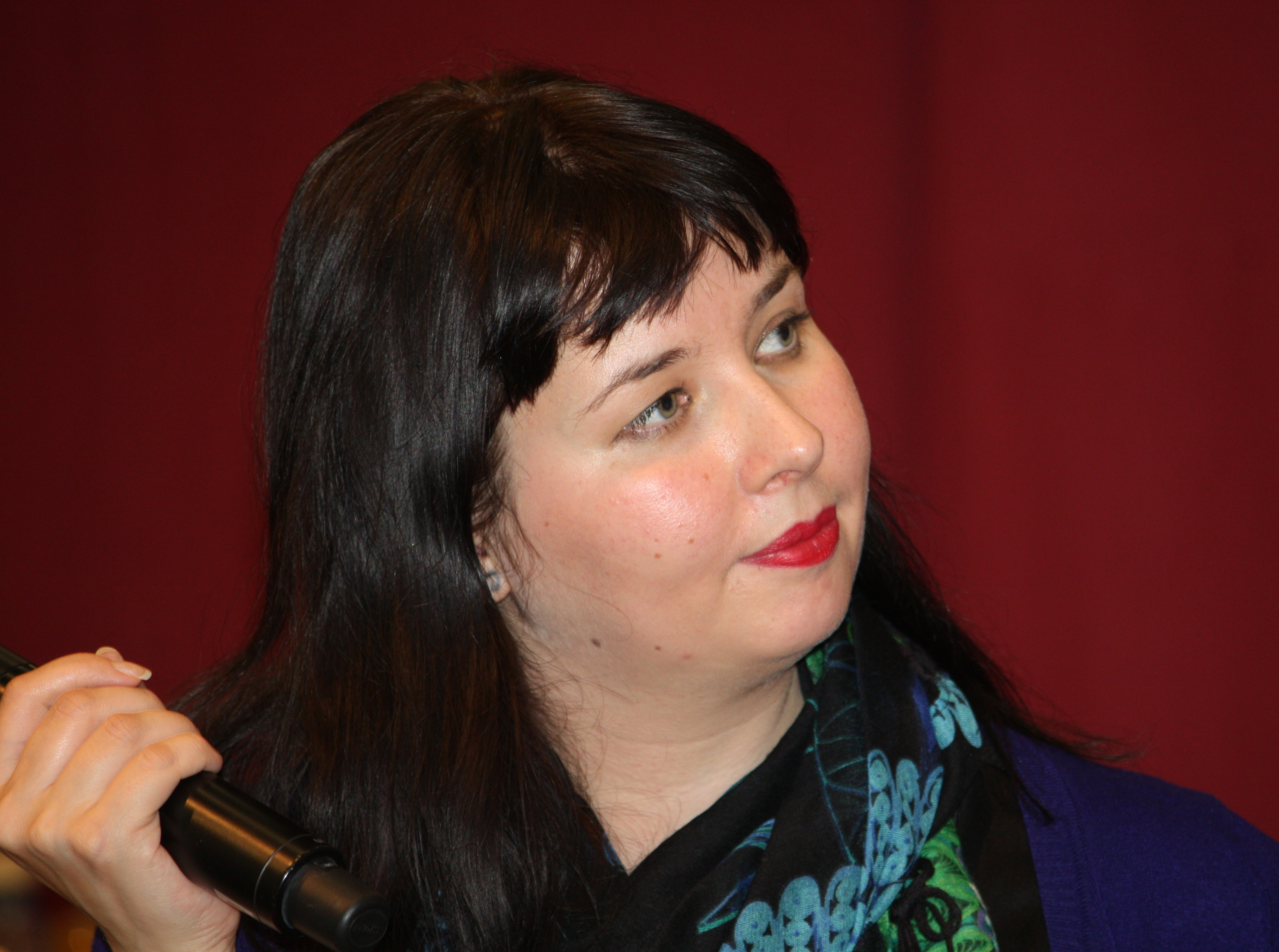 Finnish writer Miina Supinen at Turku Book Fair in 2013.